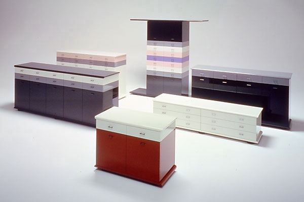 Works of KAWAKAMI Motomi 004-1982